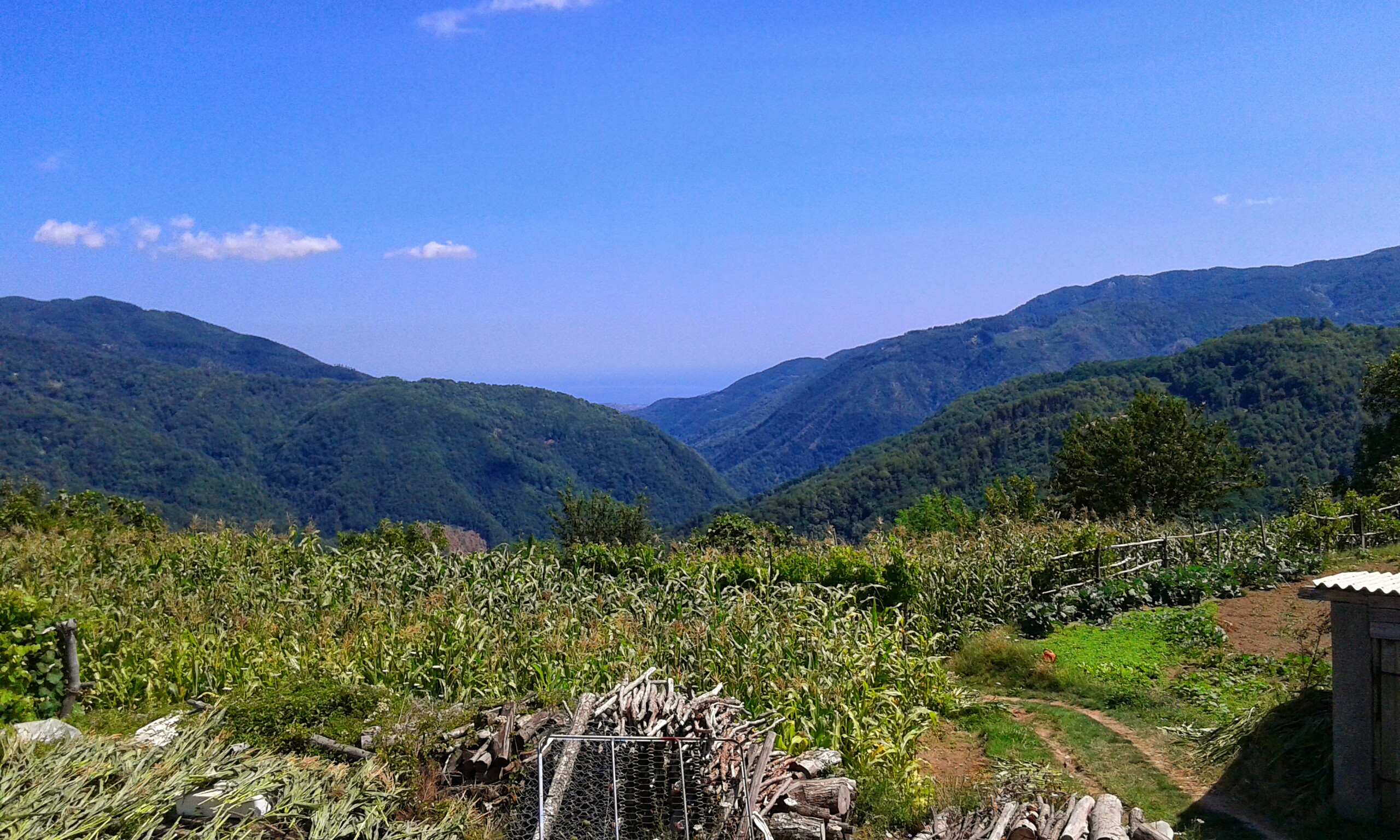 Fabrizia VV - View